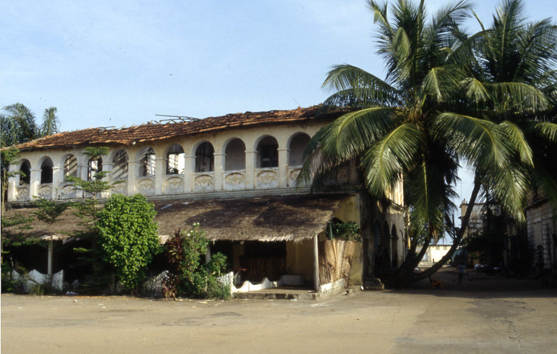 A house from French colonial time (French West Africa) in Grand Bassam, Ivory Coast, still inhabited.